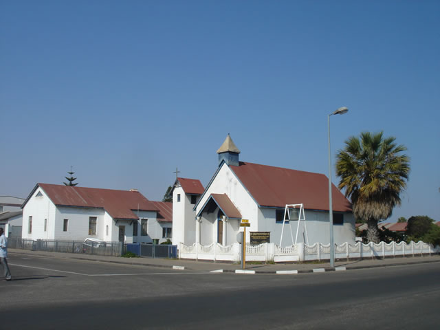 St Matthews Church Walvis Bay, Namibia